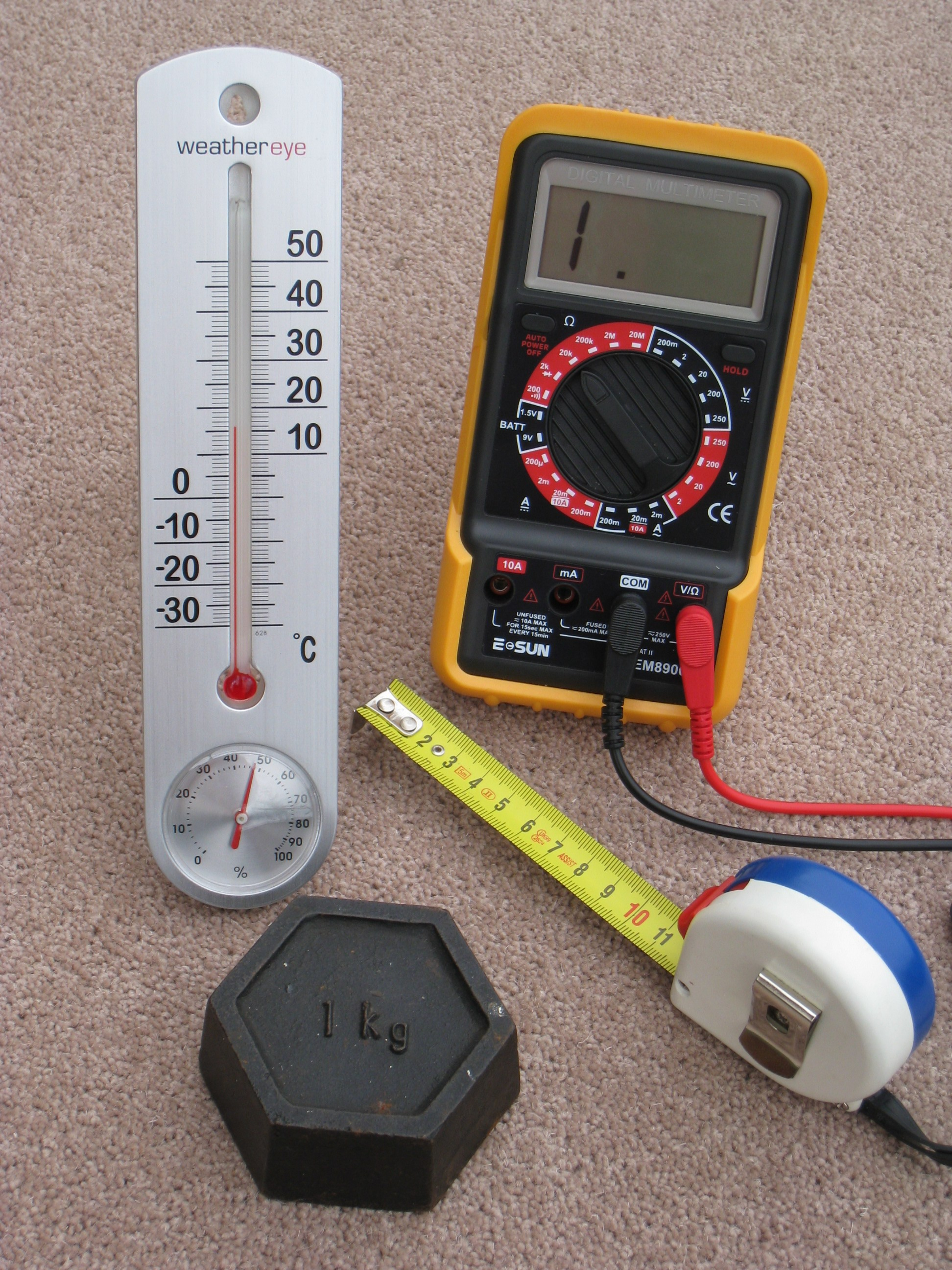 Four metric measuring devices - a tape measure, a thermometer, a one kilogram weight and an electrical multimeter. These instruments were selected to show some of the units of measure that part of the metric system (or more correctly) SI - centimetres, kilograms, degrees Celsius, amperes, volts and ohms.